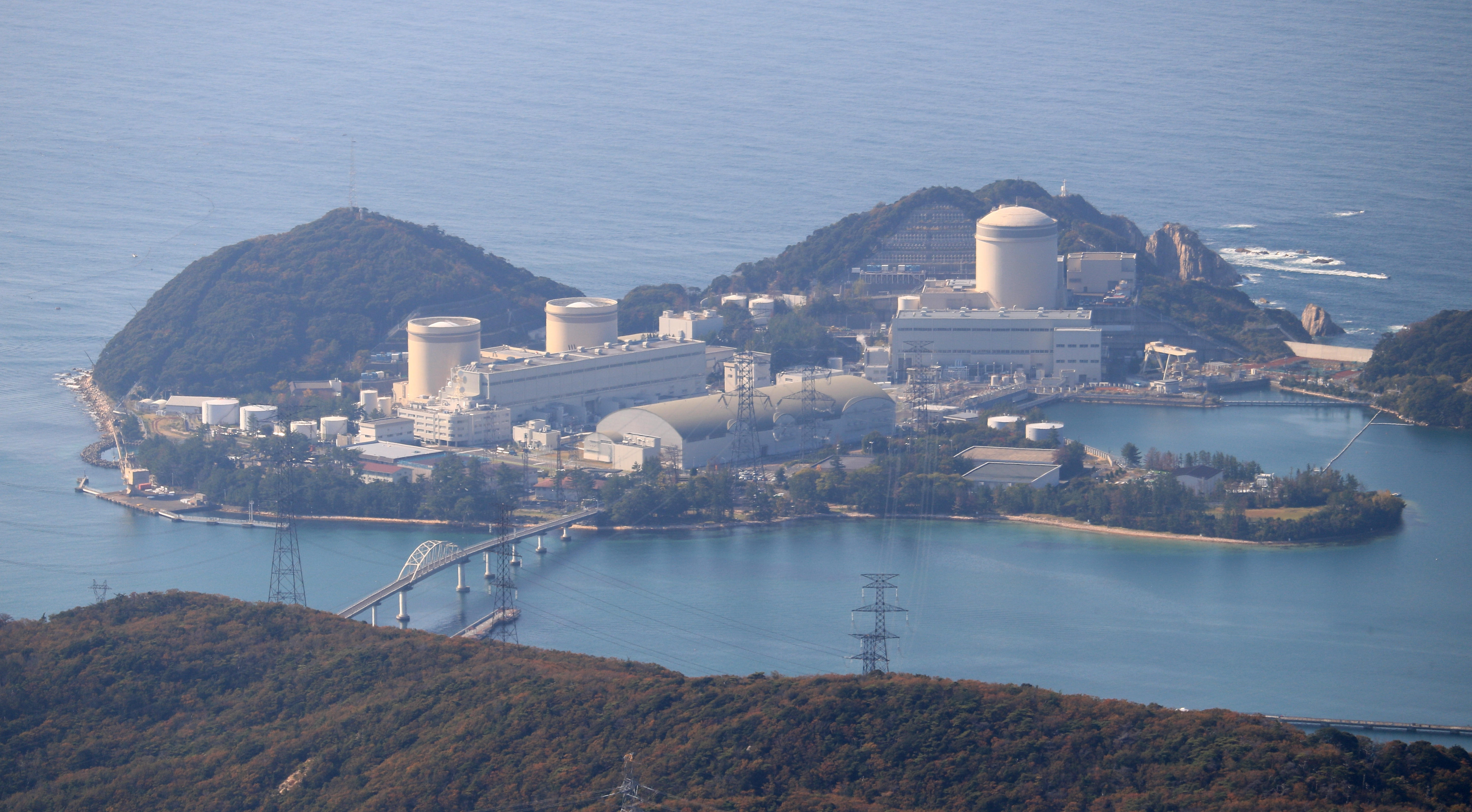 Mihama Nuclear Power Plant and Nyu Bridge seen from Mount Saiho in Fukui prefecture, Japan.